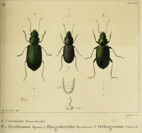 Euchroa opaca = Syn: Dyschromus opacus Notiobia nebrioides = Syn: Rhagodactylus brasiliensis Orthogenium femorale